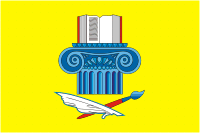 Arbat (municipality in Moscow), flag